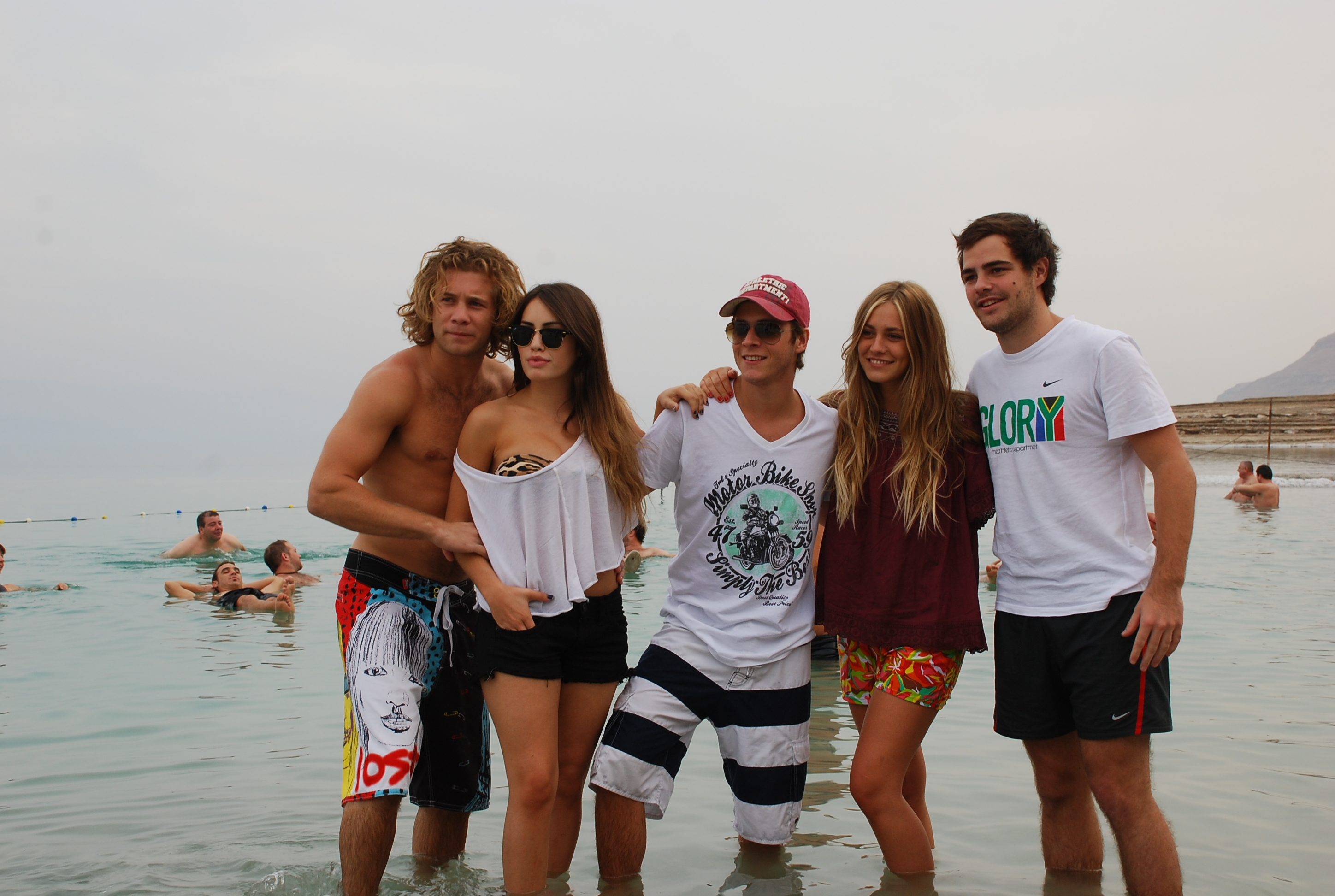 Casi ángeles visiting Israel.